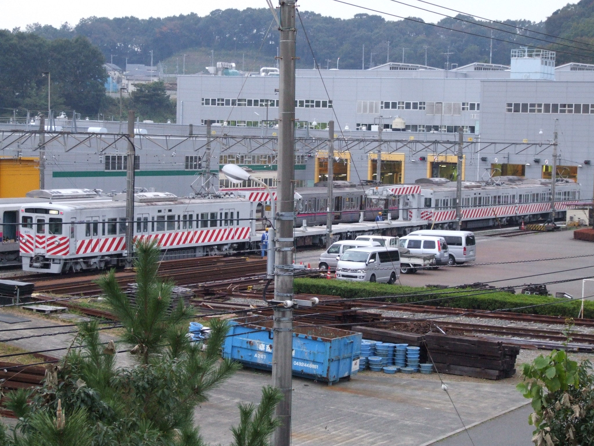 Keio Corporation Dewa 600 at Wakabadai Inspection Depot